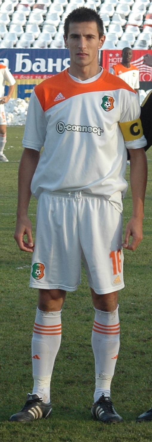 Stanislav Manolev